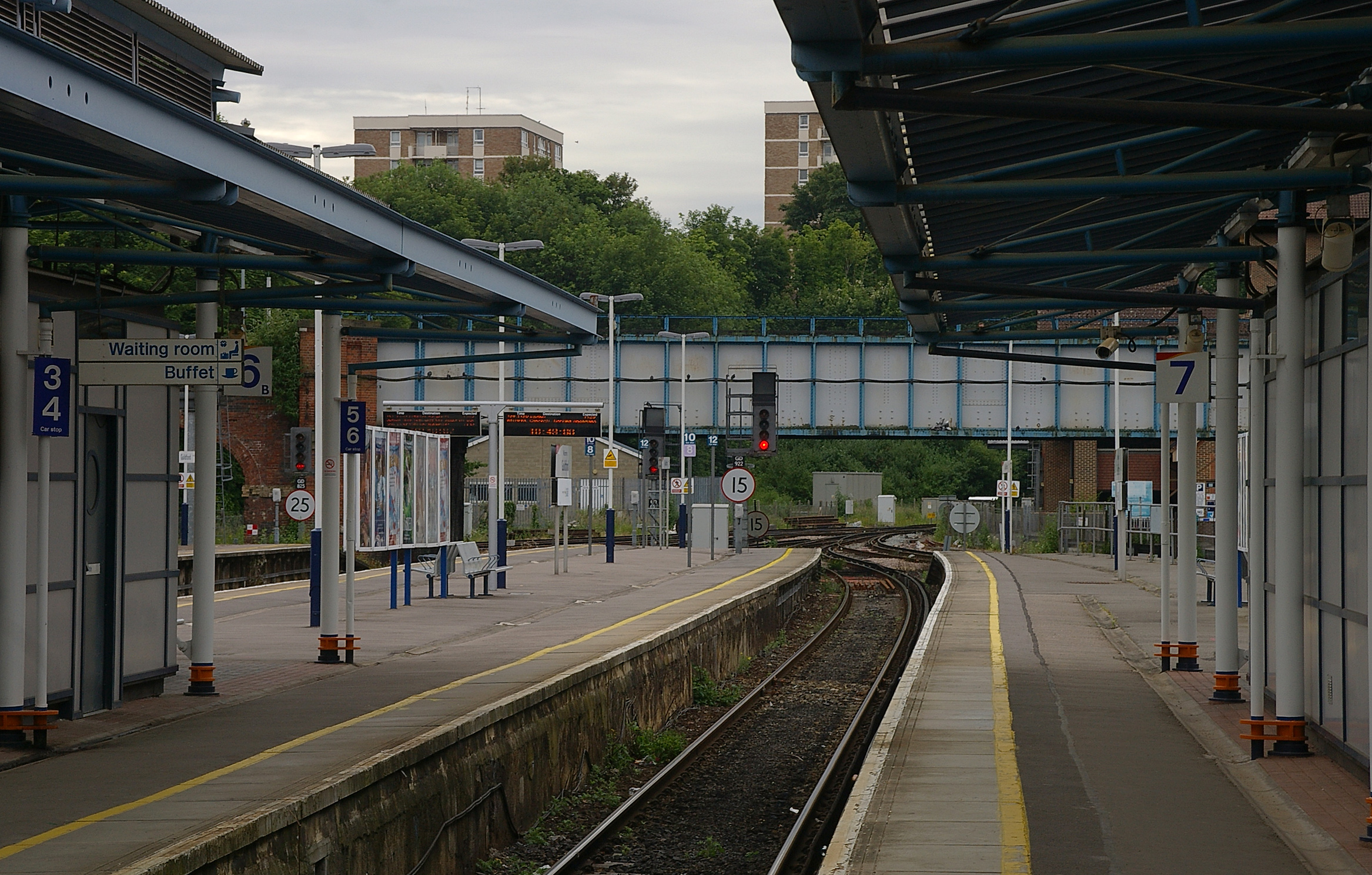 Looking south along the platform at Guildford railway station. Platform 6 is to the left, and 7 is the one the photo has been taken from. Platforms 6 and 7 are either side of the same single line, however trains doors are only opened onto platform 6, as the live rail runs along the side of platform 7.